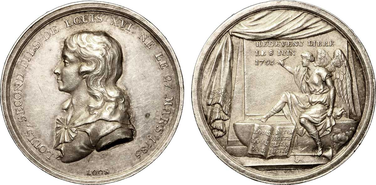 Jeton sur la mort de louis XVII, jeton en argent frappé au XIXe siècle